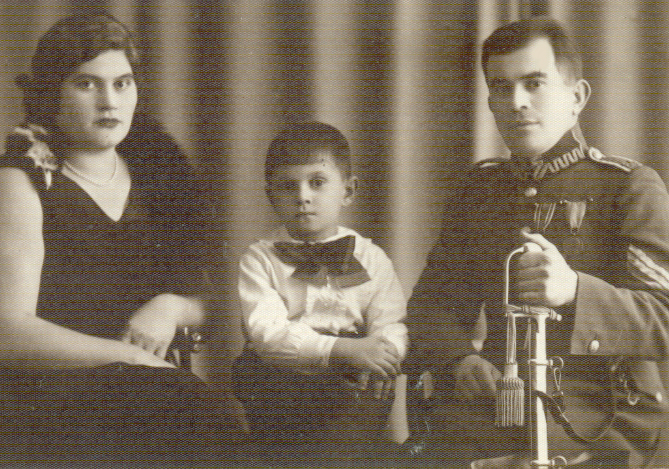 HELENA SEWERYN AND JAN LEWANDOWSCY